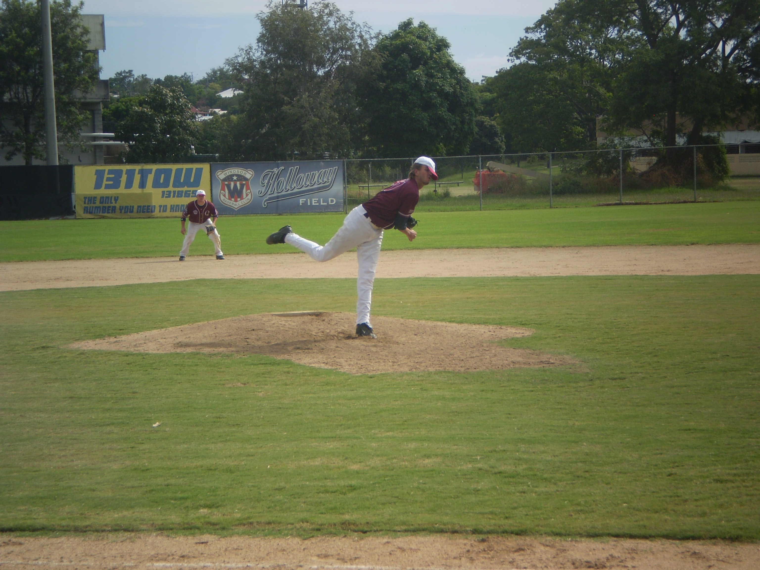 Nathan Crawford pitching for the Queensland Rams in Game 3, Round 4 of the Claxton Shield 2009 against the New South Wales Patriots. Crawford pitching 1.2 innings.